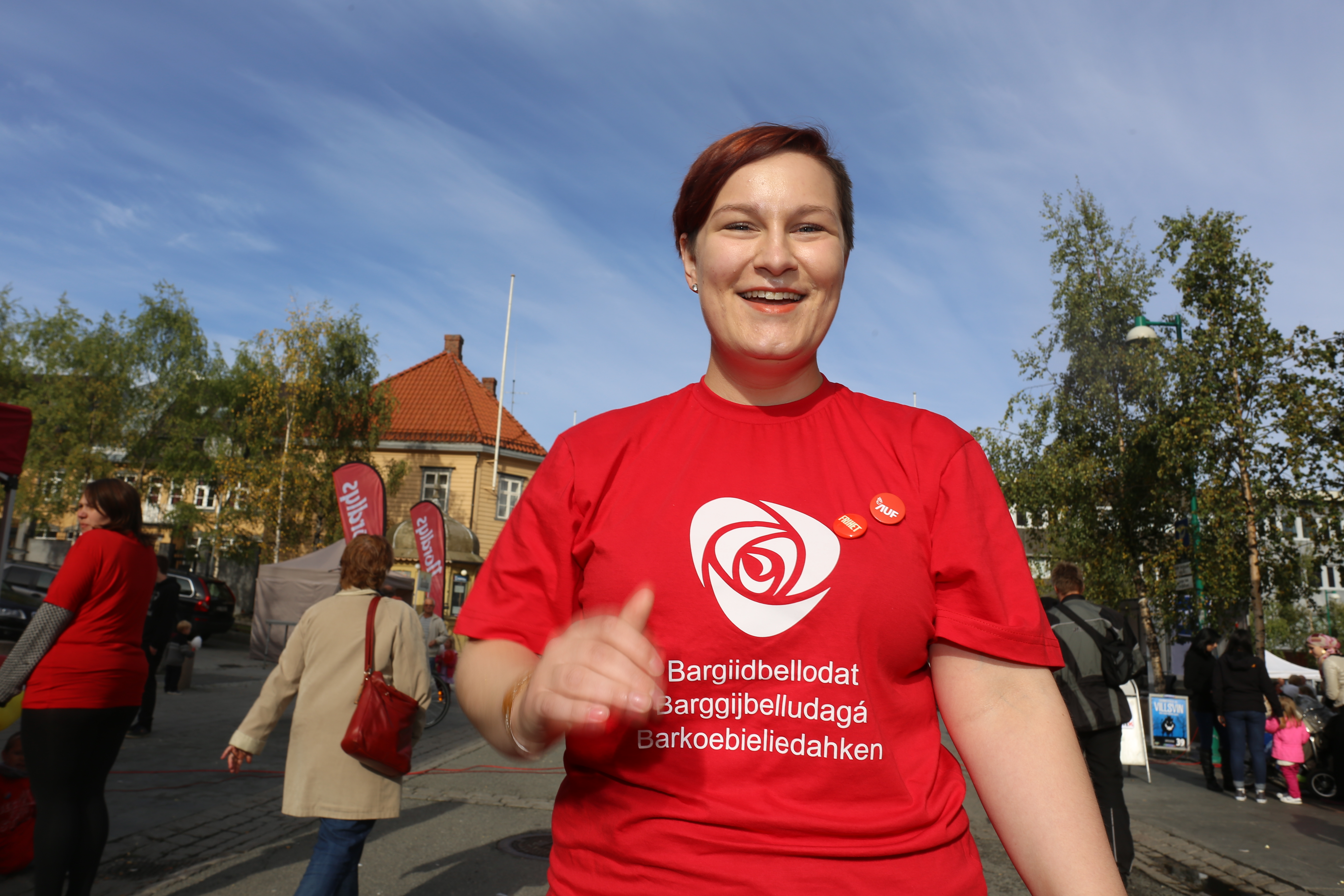 Norwegian Labour Party shirt in three Saami languages